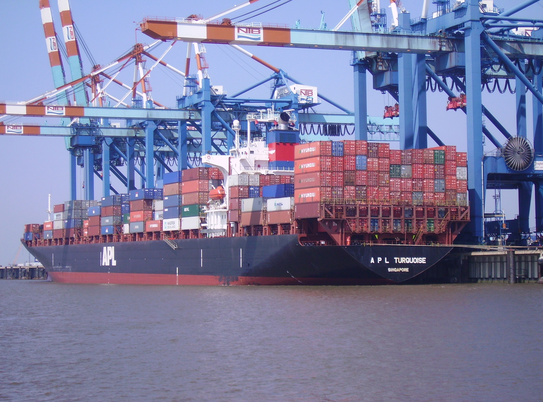 The container ship "APL Turquoise" of American President Lines in Bremerhaven, Germany